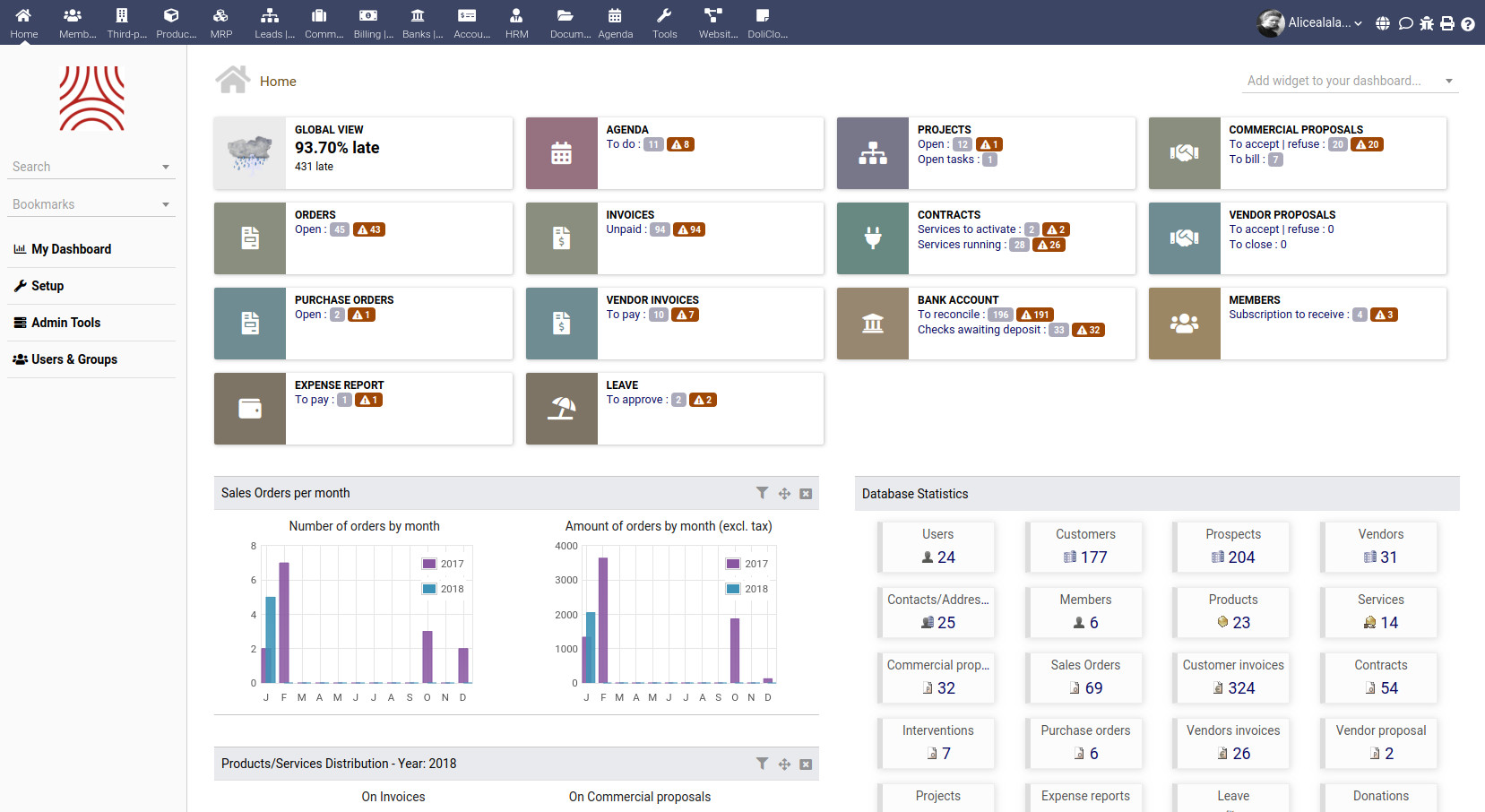 Dashboard